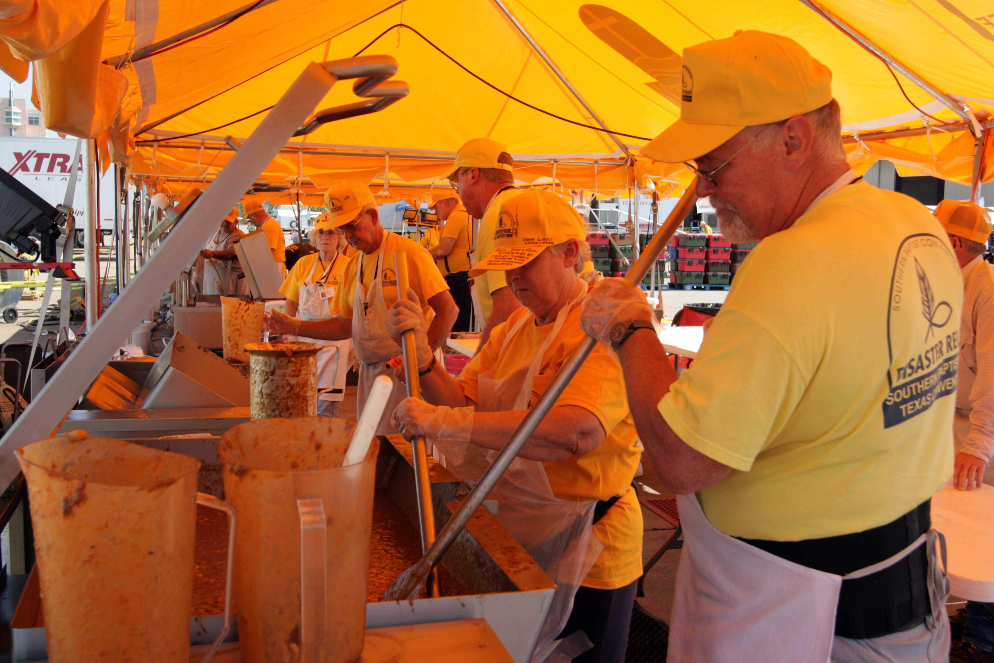 Galveston, TX, October 10, 1008 -- Volunteers with the Southern Baptist Convention prepare gallons of stew for mid-afternoon meals. American Red Cross and Salvation Army vehicles transport 30,000 meals to residents and recovery workers every day. Photo by Greg Henshall / FEMA